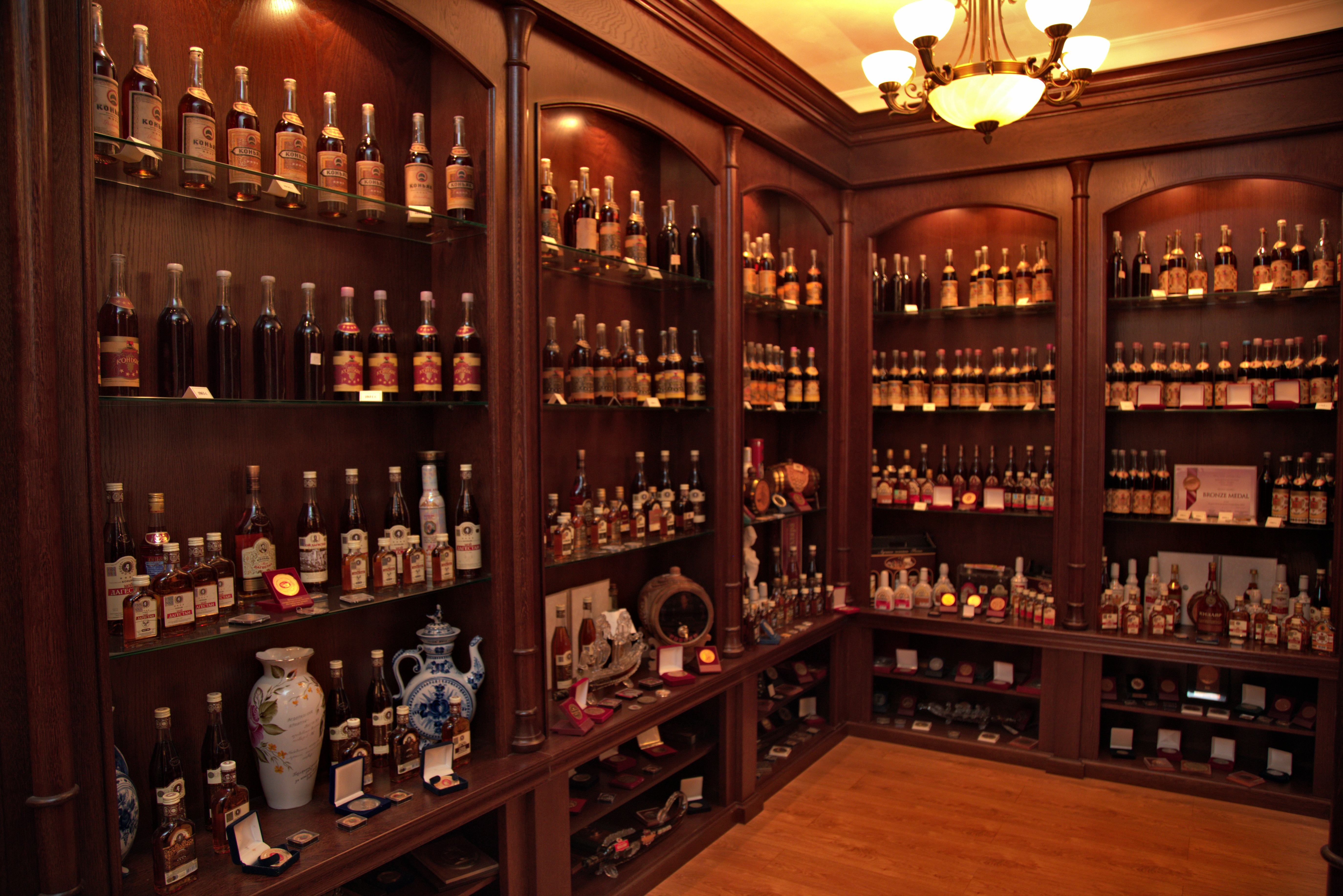 «Кизлярский коньячный завод»